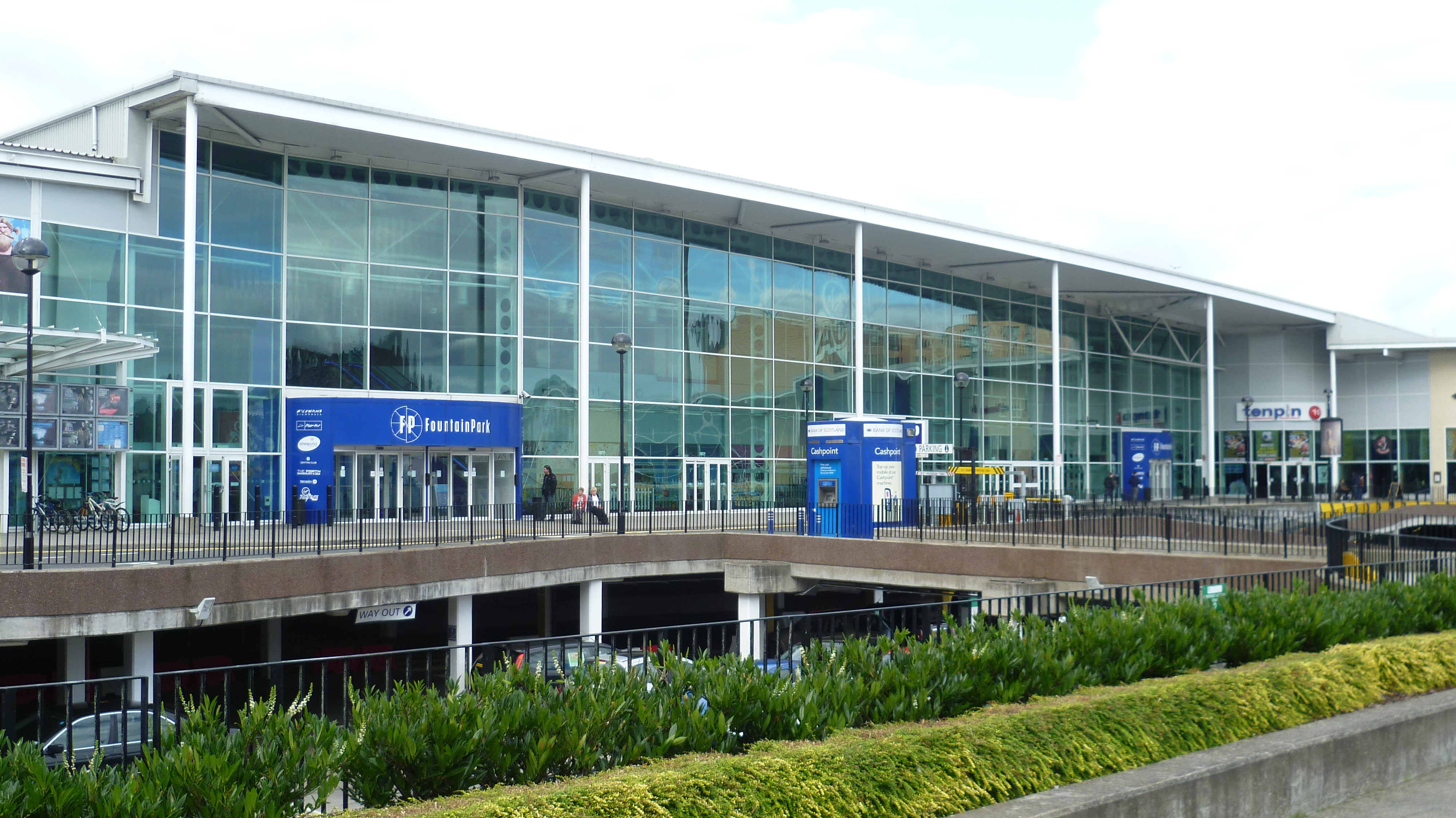 Fountain Park Centre, Edinburgh